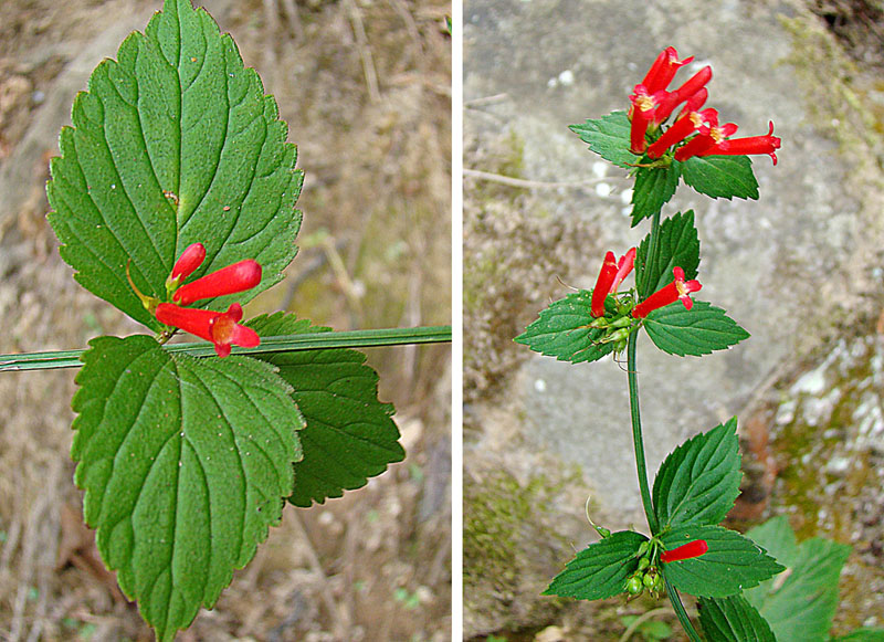 A neotropical species, here seen at Bajo Mono area, western Panama. In context at